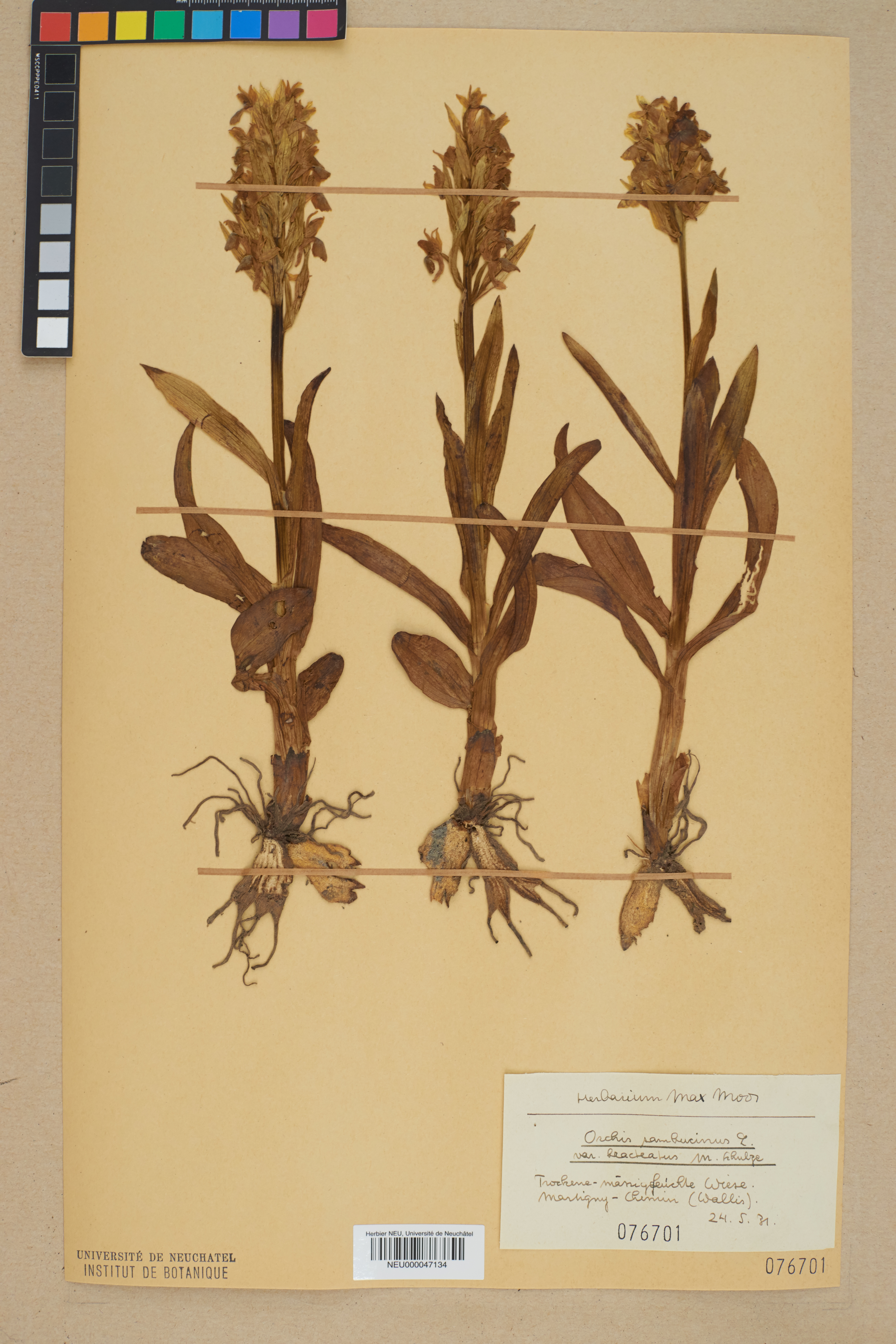 Dried pressed specimen of Dactylorhiza sambucina